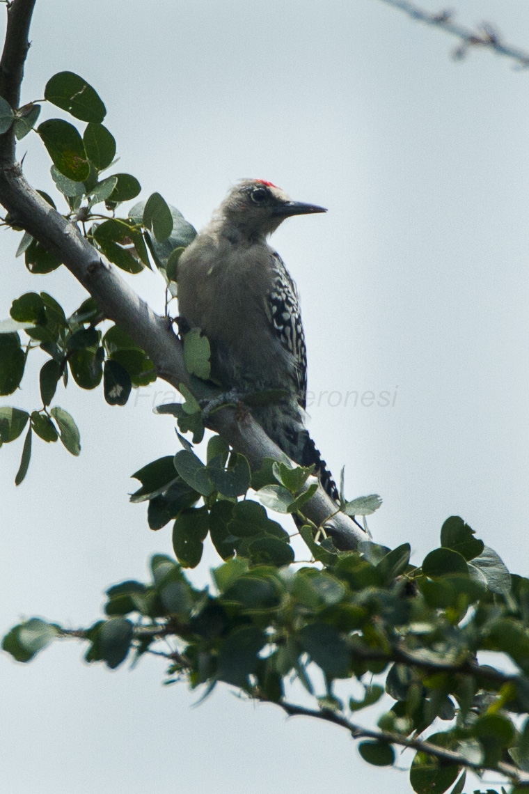 Gray-breasted Woodpecker - Mexico_S4E9436